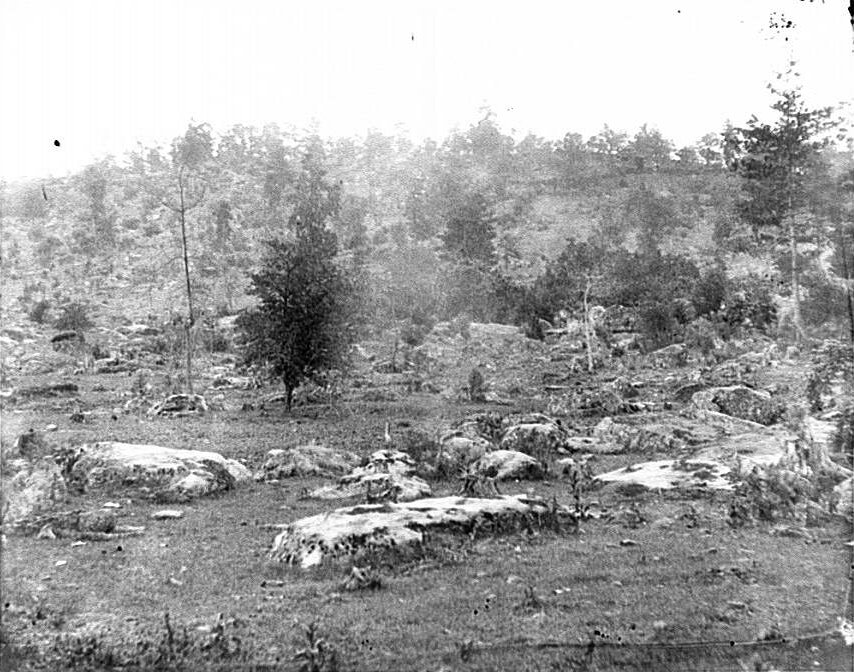 Gettysburg, PA. View of Little Round Top